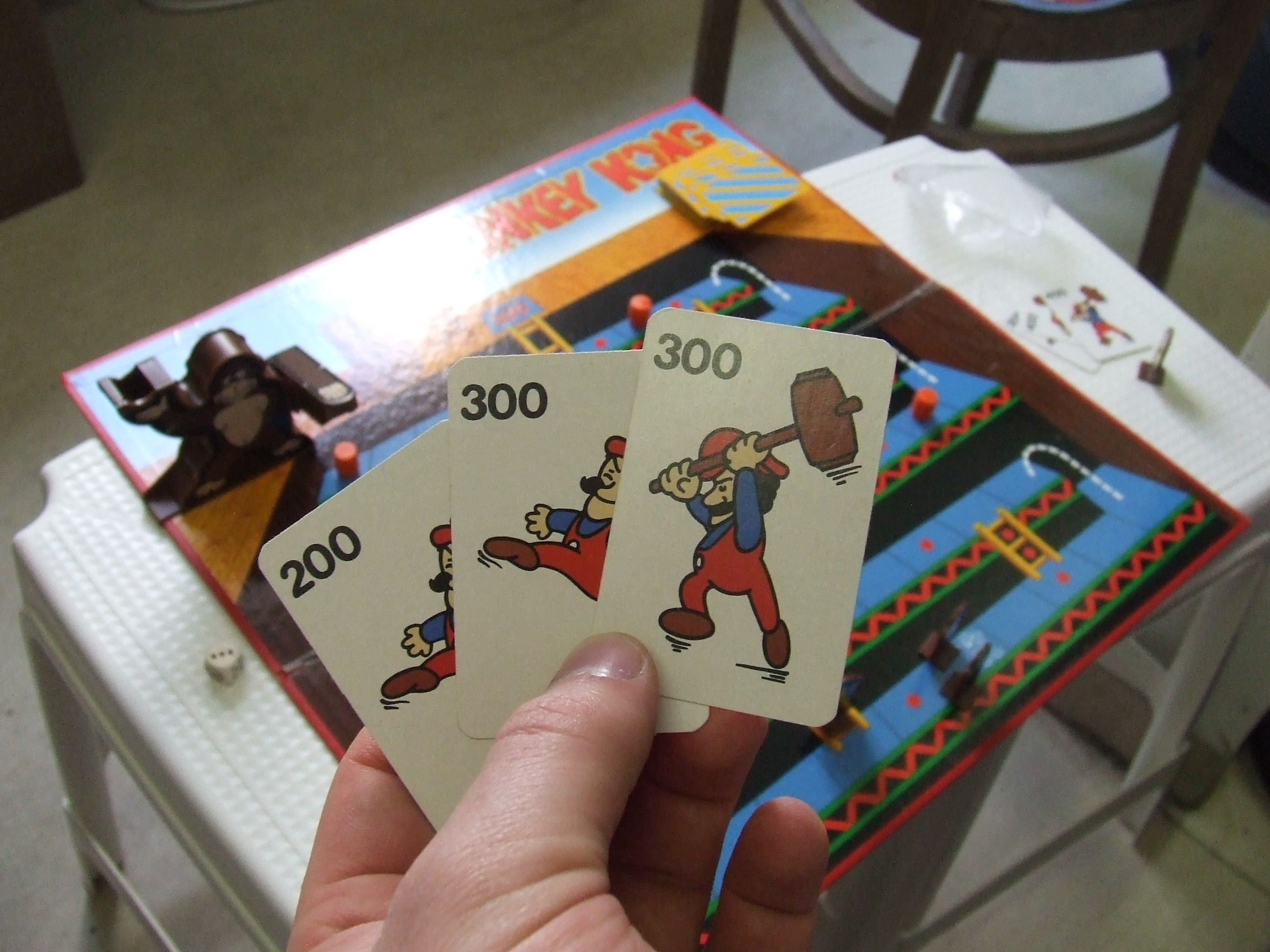 Donkey Kong board game